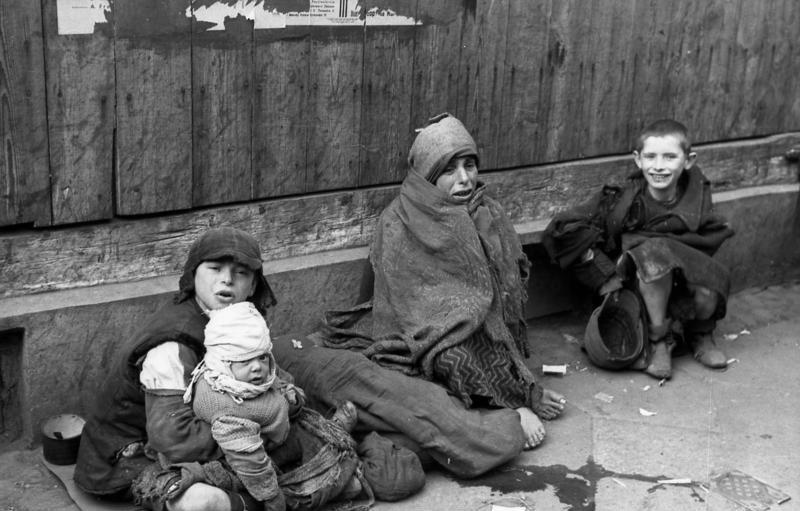 Warsaw Ghetto